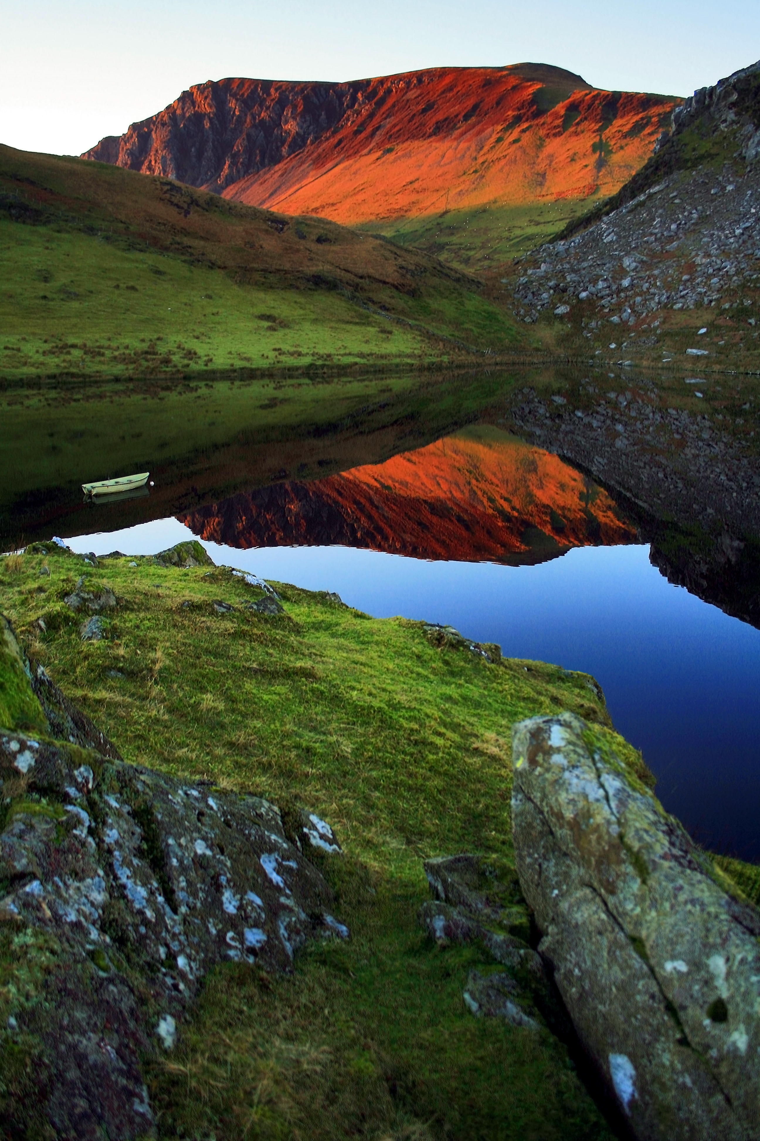 Sunset warming the colours of the Nantlle valley, Gwynedd. Upload no. 200!!!